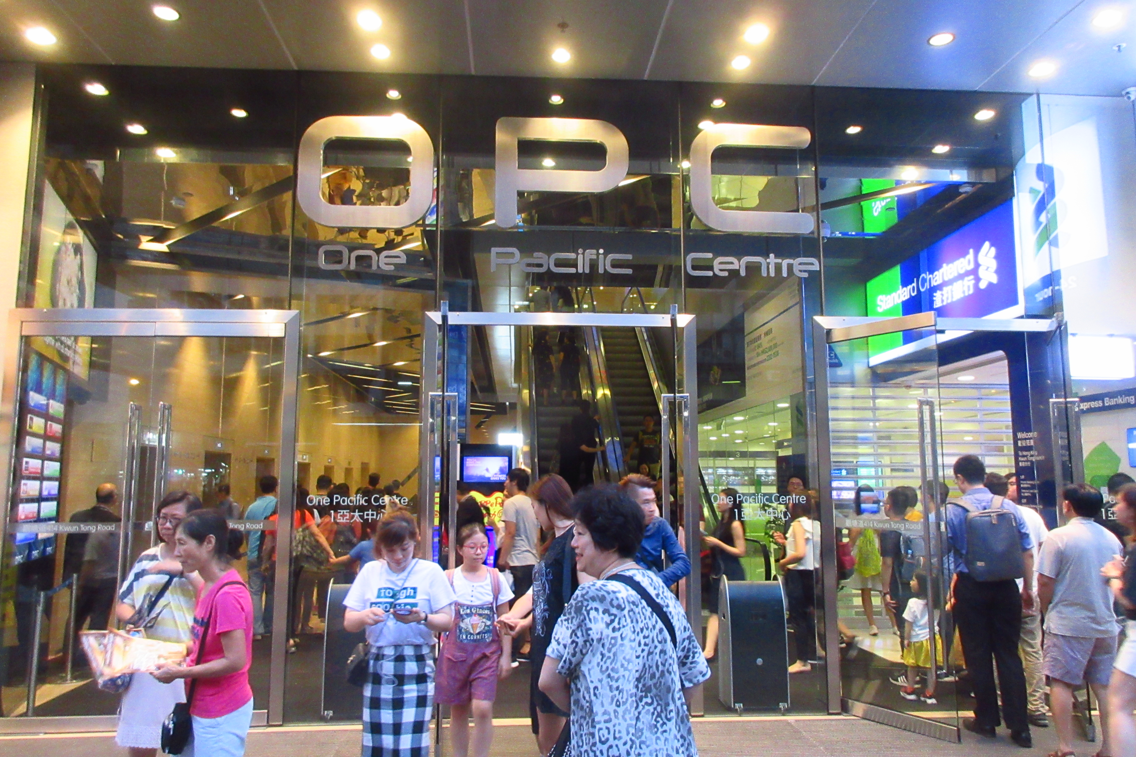 HK 觀塘 Kwun Tong 1亞太中心 One Pacific Centre OPC n sidewalk shop Standard Chartered Bank n visitors in evening July 2018